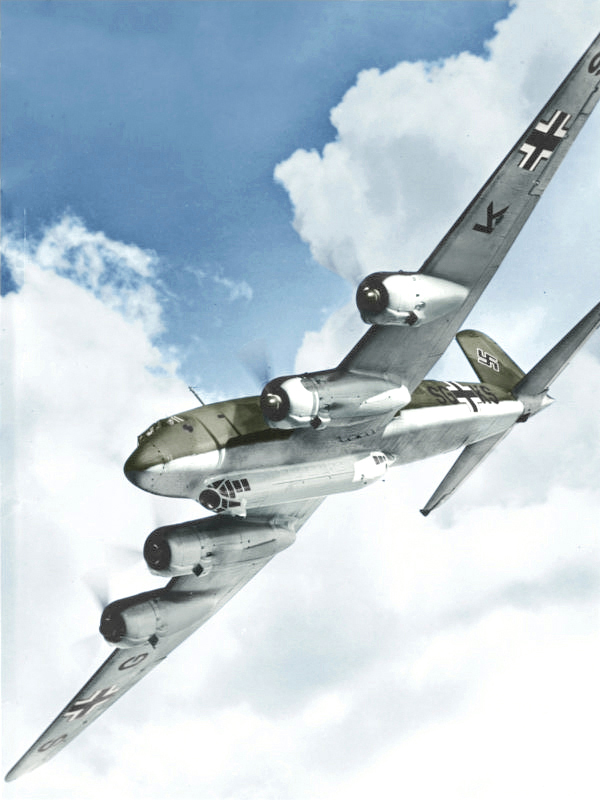 This is a retouched picture, which means that it has been digitally altered from its original version. Modifications: recolored. The original can be viewed here: Bundesarchiv Bild 146-1978-043-02, Focke-Wulf Fw 200 C Condor.jpg. Modifications made by Ruffneck88. Walter Frentz: Focke-Wulf Fw 200 C Condor 15px|link= Photographer Walter Frentz (1907–2004) DescriptionGerman film director, photographer, cinematographer, film producer and canoeistDate of birth/death 1907 / 21 August 1907 2004 / 6 July 2004Location of birth/death Heilbronn ÜberlingenAuthority control : Q62028 VIAF: 2786425 ISNI: 0000 0001 0863 6589 LCCN: nr96000760 GND: 116770635 SUDOC: 079719406 WorldCat photographer QS:P170,Q62028Archive description Description provided by the archive when the original description is incomplete or wrong. You can help by reporting errors and typos at Commons:Bundesarchiv/Error reports. Focke-Wulf Fw 200 C "Condor" im FlugTitle Focke-Wulf Fw 200 C Condor Date 1941date QS:P,+1941-00-00T00:00:00Z/9Collection German Federal Archives Native nameDas BundesarchivLocationKoblenz (headquarters)Coordinates50° 20′ 32.71″ N, 7° 34′ 21.22″ E Established1946Web page control : Q685753 VIAF: 137346469 ISNI: 0000 0004 0555 2728 LCCN: n92025526 NLA: 36455393 Open Library: OL55798A WorldCat institution QS:P195,Q685753Current location Sammlung von Repro-Negativen (Bild 146)Accession number Bild 146-1978-043-02 Source This image was provided to Wikimedia Commons by the German Federal Archive (Deutsches Bundesarchiv) as part of a cooperation project. The German Federal Archive guarantees an authentic representation only using the originals (negative and/or positive), resp. the digitalization of the originals as provided by the Digital Image Archive.